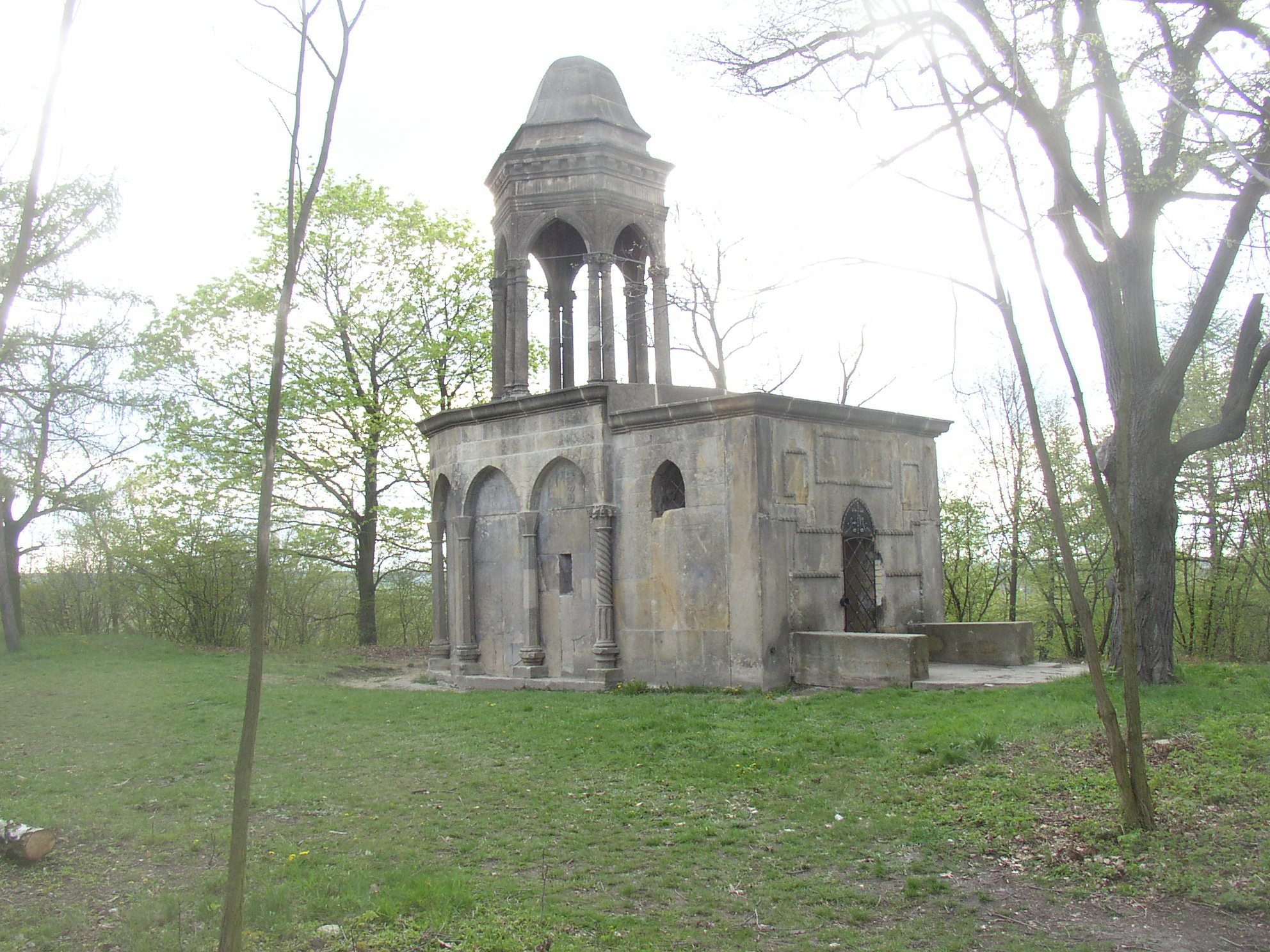 Holy Sepulchre chapel in town of Slaný, Kladno District, Czech Republic. A view from the east. This oldest replica of the Holy Sepulchre in Bohemia was built by Count Bernard Ignác of Martinice in 1665.